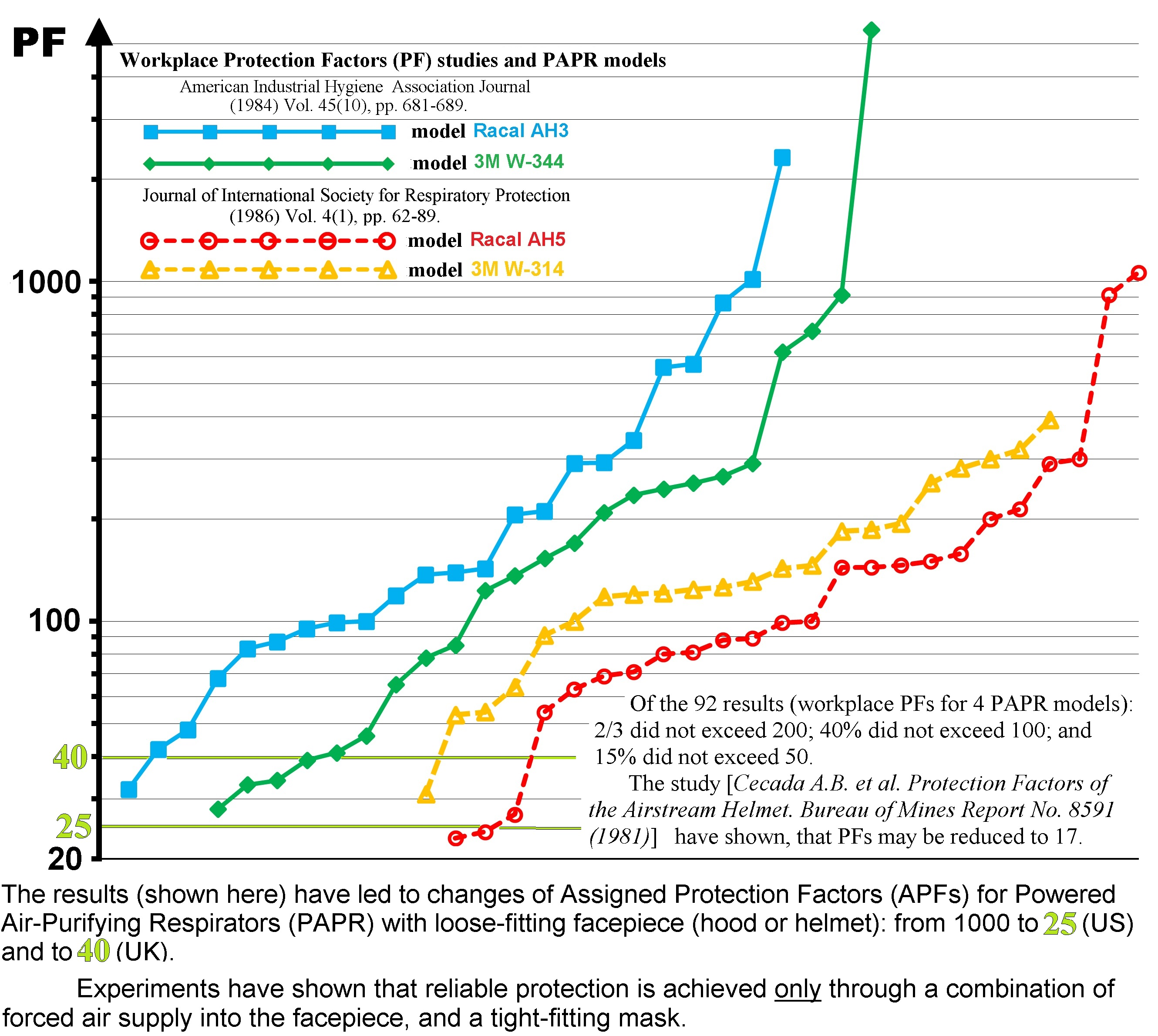 The diagram show 92 values ​​of the Workplace Protection Factors WPFs (the ratio of the concentration of harmful substances in the breathing zone outside the facepiece to the in-facepiece concentration, in the inhaled air) of Powered Air-Purifying Respirators (PAPRs) with loose-fitting facepieces (hood or helmet). These workplace (field) studies revealed unexpectedly low RPD performance: instead of reducing air pollution in 1000 times and more (that they consistently demonstrated in the laboratory conditions), the worcplace PF decreased up to 23-24, and usually does not exceed 200. These results led to change the Assigned Protaction Factors (allowable area of ​​usage) of such PPE - from 1000 PEL to 25 PEL (in US); and up to 40 OEL (in UK)